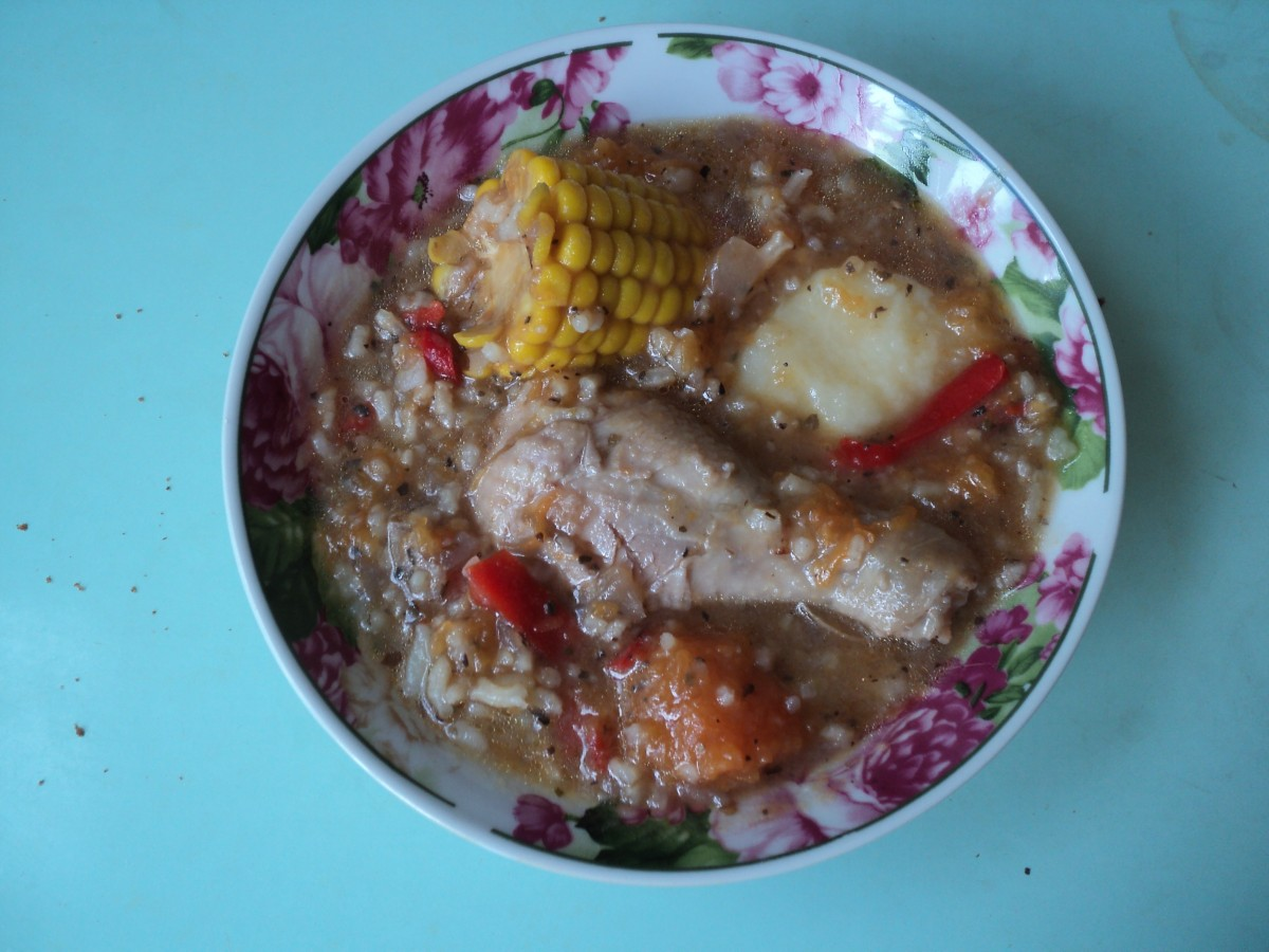 Chilean dish "cazuela de pollo" cooked in Crimea